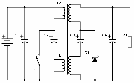 Zero-ripple input and output isolated Ćuk converter schematic. The circuit has control stability problems. (Integrated Magnetics Cuk Converter)